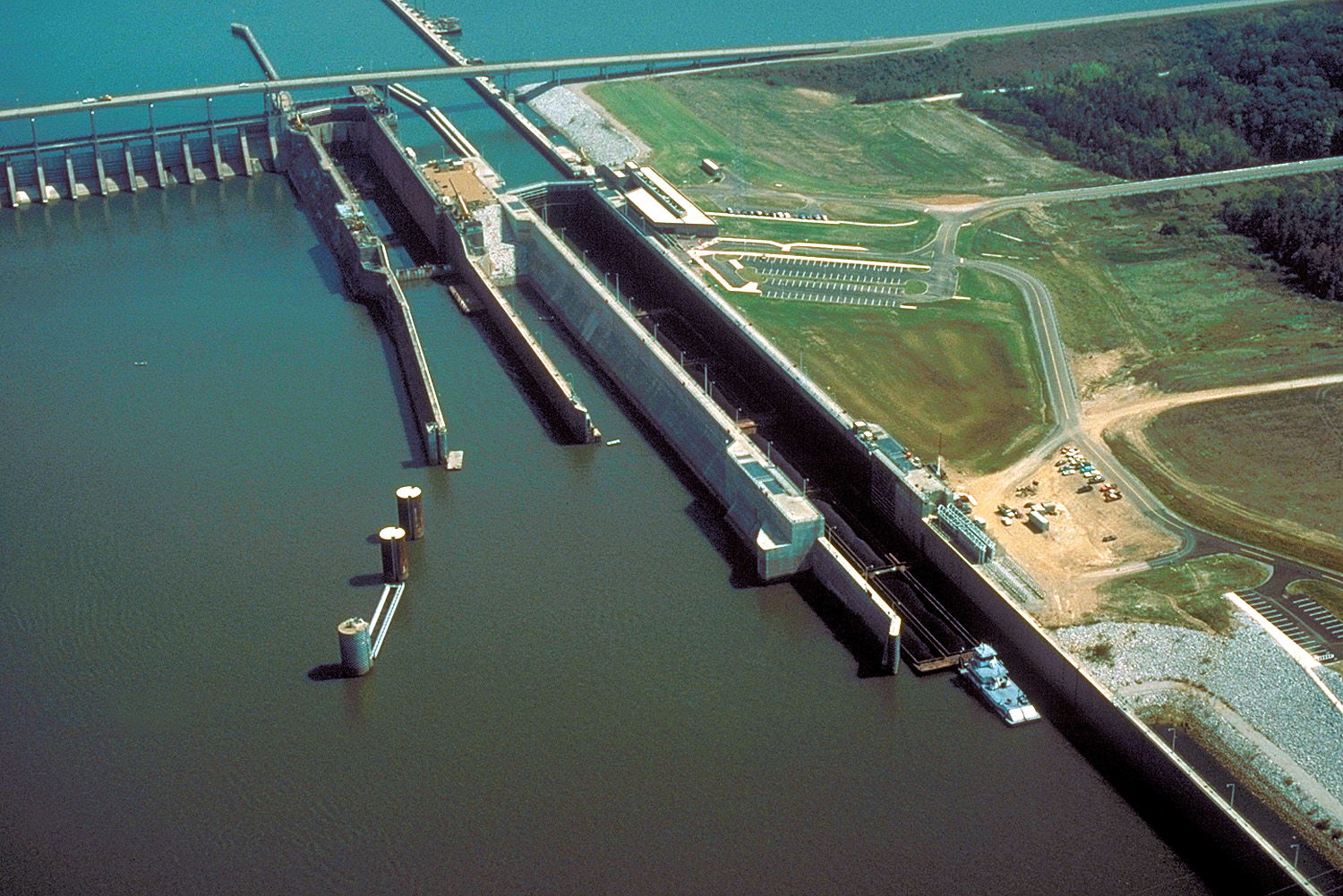 According to contributor, this is Watts Bar Lock and Dam on the Tennessee River near Decatur, Tennessee, USA. However, this is not Watts Bar Dam. See discussion at [1]. There currently are three other images on the Army Corps website that do appear to be Watts Bar Dam. Watts Bar Dam impounds Watts Bar Lake. The lock is operated and maintained by the U.S. Army Corps of Engineers. View is upriver.